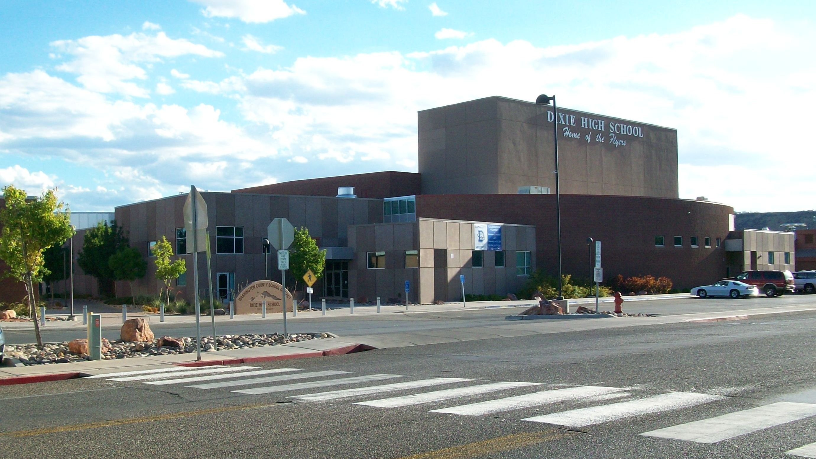 Taken by uploader 8/18/2010.